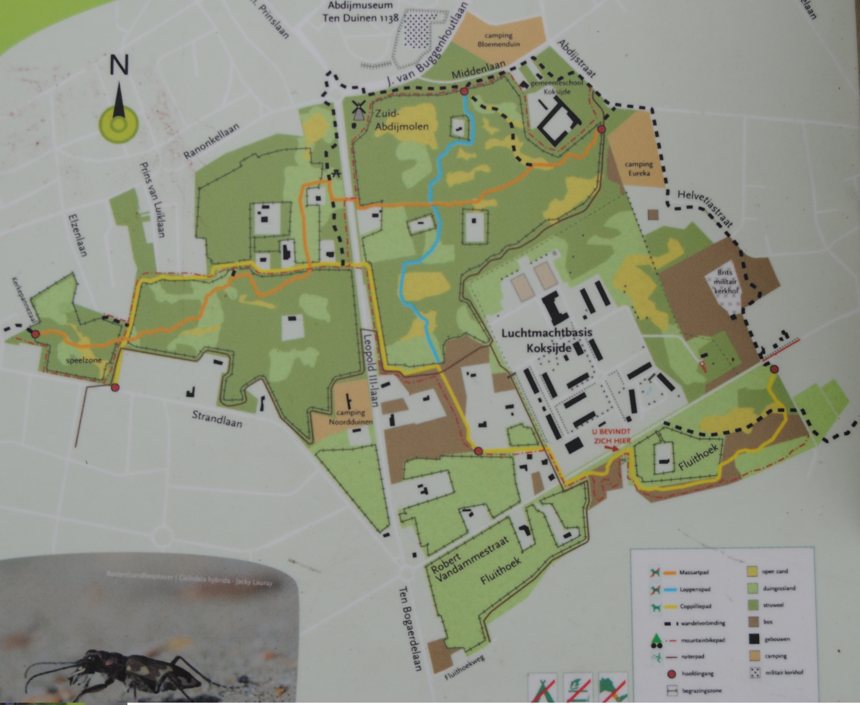 Picture taken from information panel at the "noordduinen" nature protection site